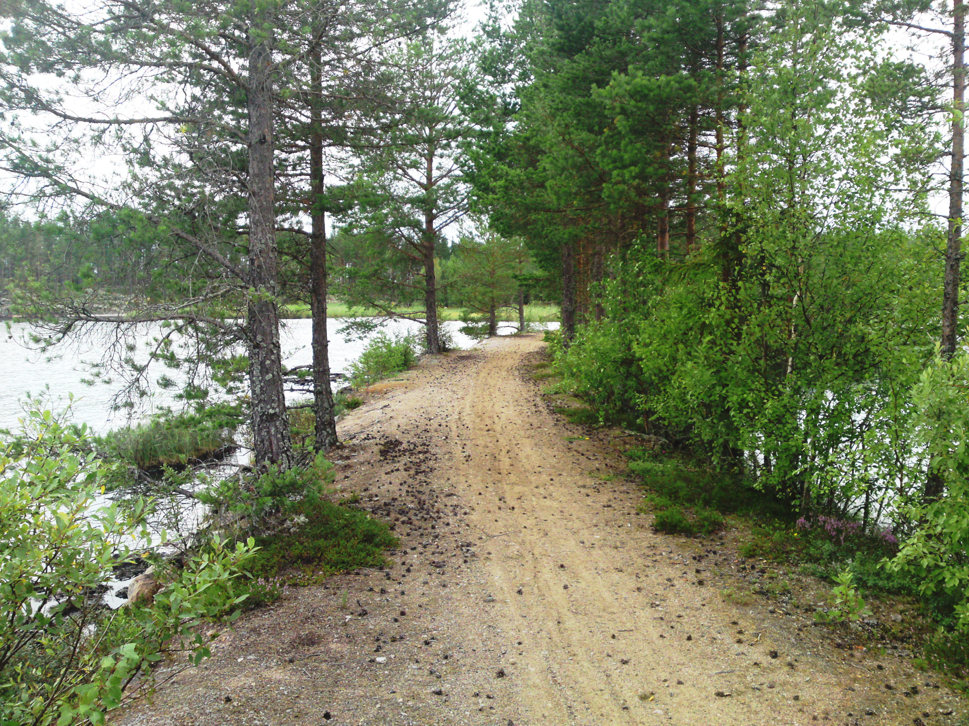 The old Säfsbanan railway between Fredriksberg and Tyfors, Dalarna, Sweden. Today used as a walking/cycling lane.